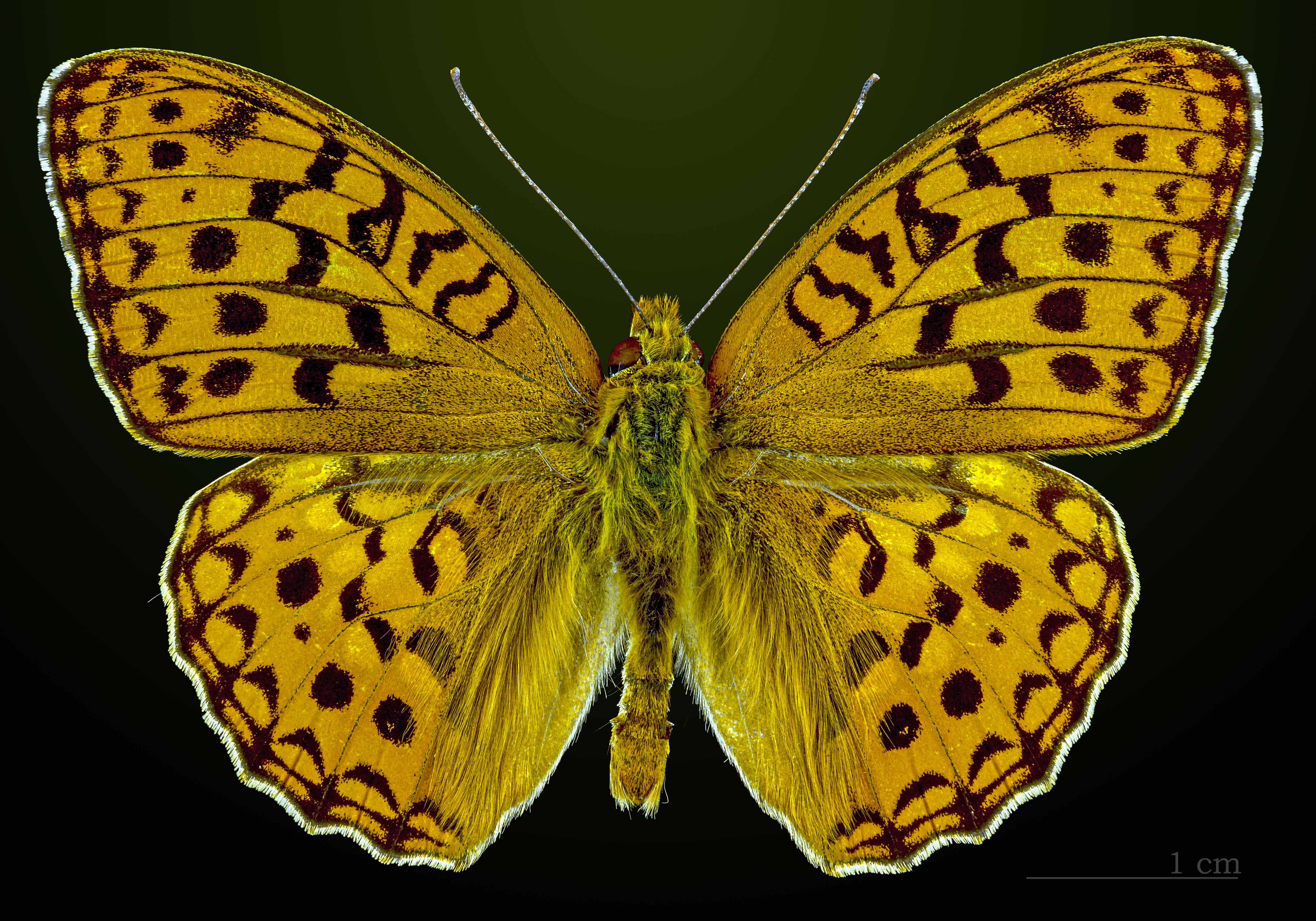 High brown fritillary - Dorsal side Locality: Sornac, Corrèze, France